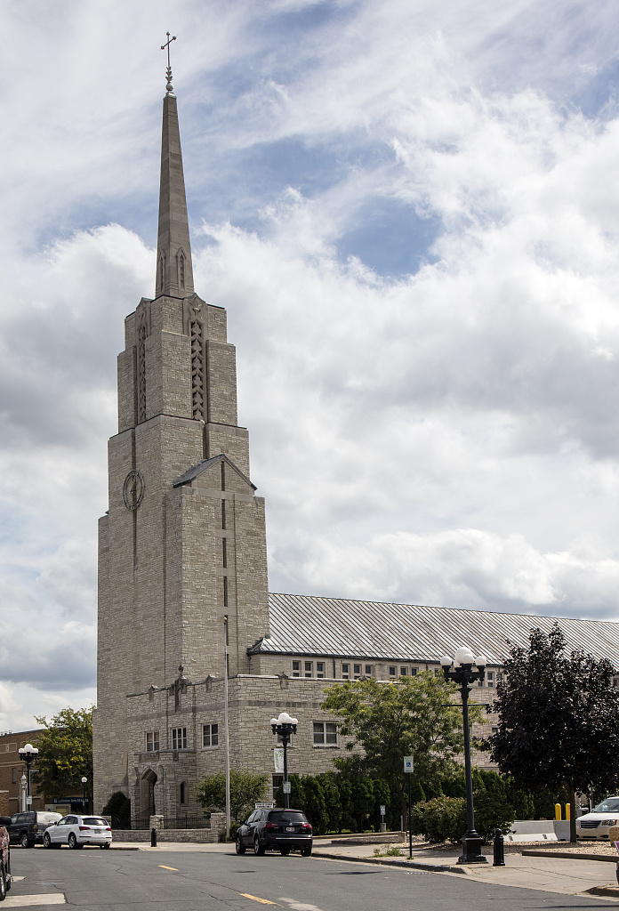 Title: The Cathedral of St. Joseph the Workman, the"mother church"of the Catholic Diocese of La Crosse, designed by architect Edward J. Schulte and completed in 1962 in the Mississippi River port of La Crosse, Wisconsin. The cathedral is named for Joseph, a carpenter in Nazareth who was the husband of Mary, said by Christians to be the mother of Jesus Christ. Physical description: 1 photograph : digital, tiff file, color. Notes: Purchase; Carol M. Highsmith Photography, Inc.; 2016; (DLC/PP-2016:103-1).; Forms part of: Carol M. Highsmith Archive.; Credit line: Photographs in the Carol M. Highsmith Archive, Library of Congress, Prints and Photographs Division.; Title, date and keywords based on information provided by the photographer.